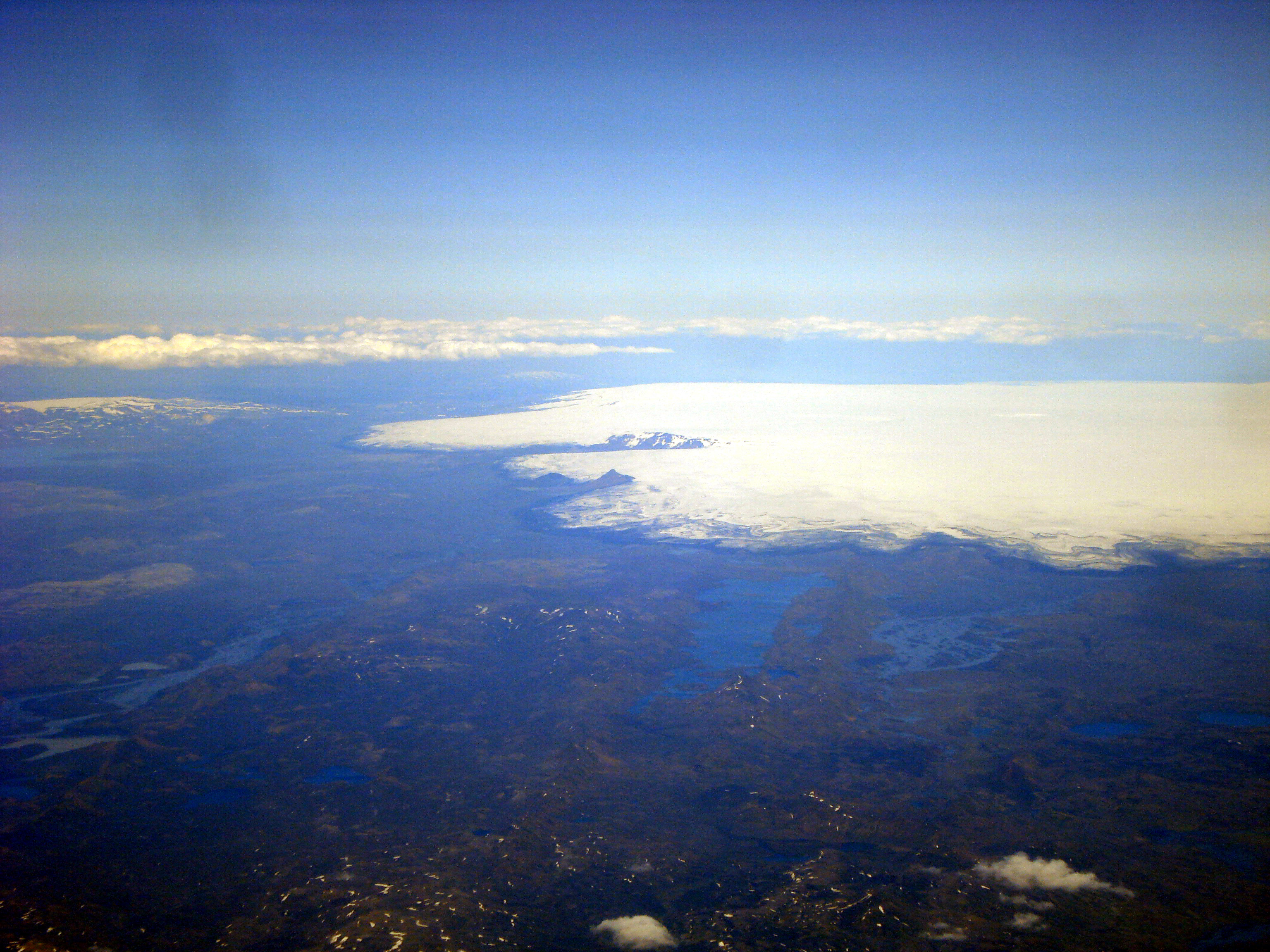 West-Vatnajökull, glacier in Iceland